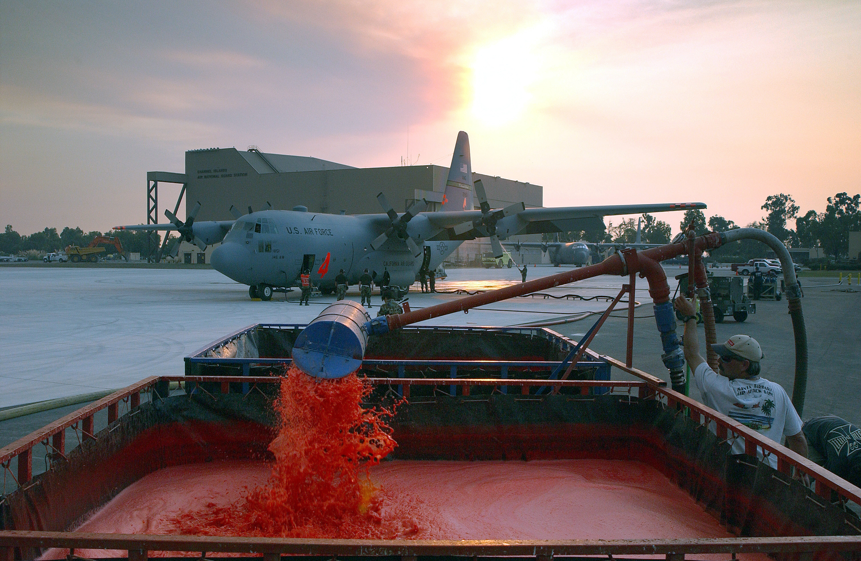 "CHANNEL ISLANDS AIR NATIONAL GUARD STATION, Calif. -- A Modular Airborne Fire Fighting System equipped C-130E Hercules from the 146th Airlift Wing, California Air National Guard, here is reloaded with Phoschek fire retardant to be dropped on the Simi Fire in Southern California on Oct. 28. Pilots flying eight Air Force C-130 Hercules cargo airplanes have dropped 129,600 gallons of retardant on the Simi fire during 48 sorties and 32 flying hours as of Oct. 29."